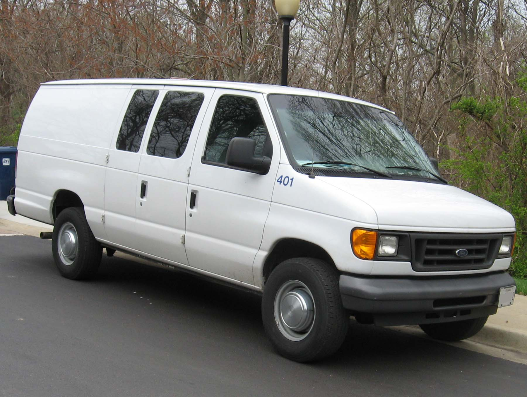 2003-2007 Ford E-Series photographed in USA.